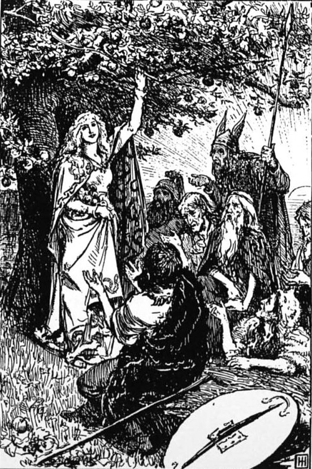 Idunn and the Apples of Youth (the title in the book)